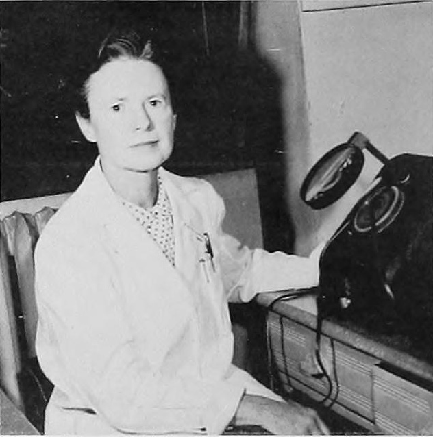 Hattie E. Alexander, professor of pediatrics